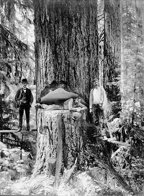 Logging, Lower Columbia, ca. 1905 J.F. Ford photo Negative No: OrHi 37858 The above description is from the source webpage at the Oregon Historical Society. This image has been discussed.